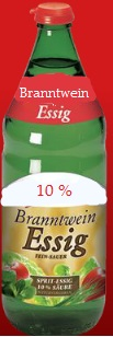 Essig